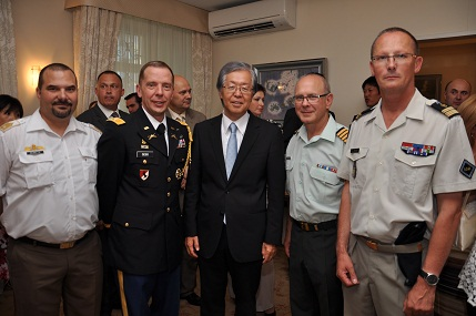 (From the left) Military attachés of Hungary, United States, Canada and France to Ukraine, with Japanese Ambassador Toichi Sakata in the middle, celebrate the Self Defense Force Day at the ambassador's residence in Kiev.